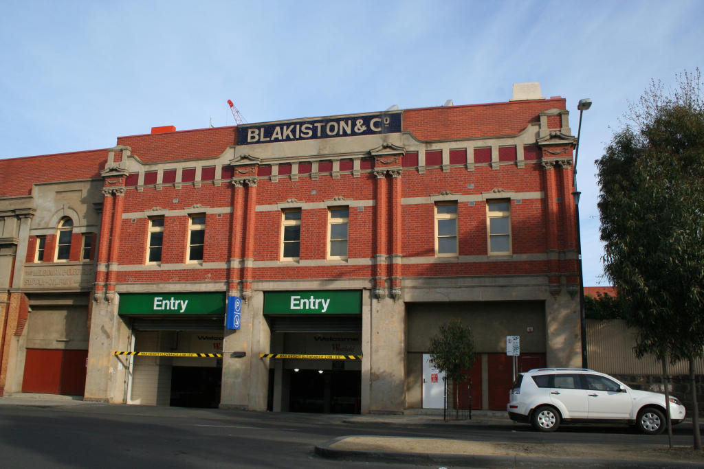 Blakiston's Building, Geelong. Now part of Bay City Plaza.